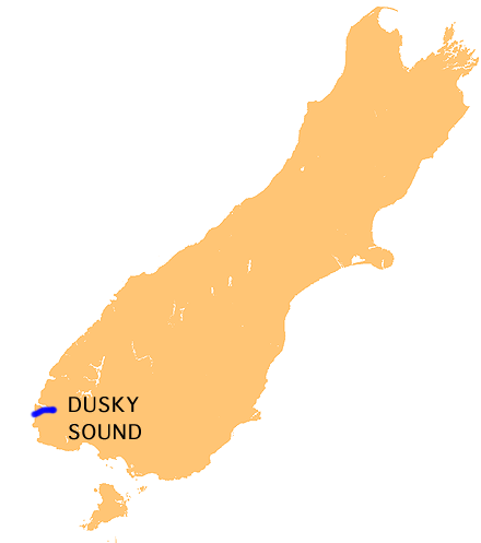 Location map of Dusky Sound, New Zealand